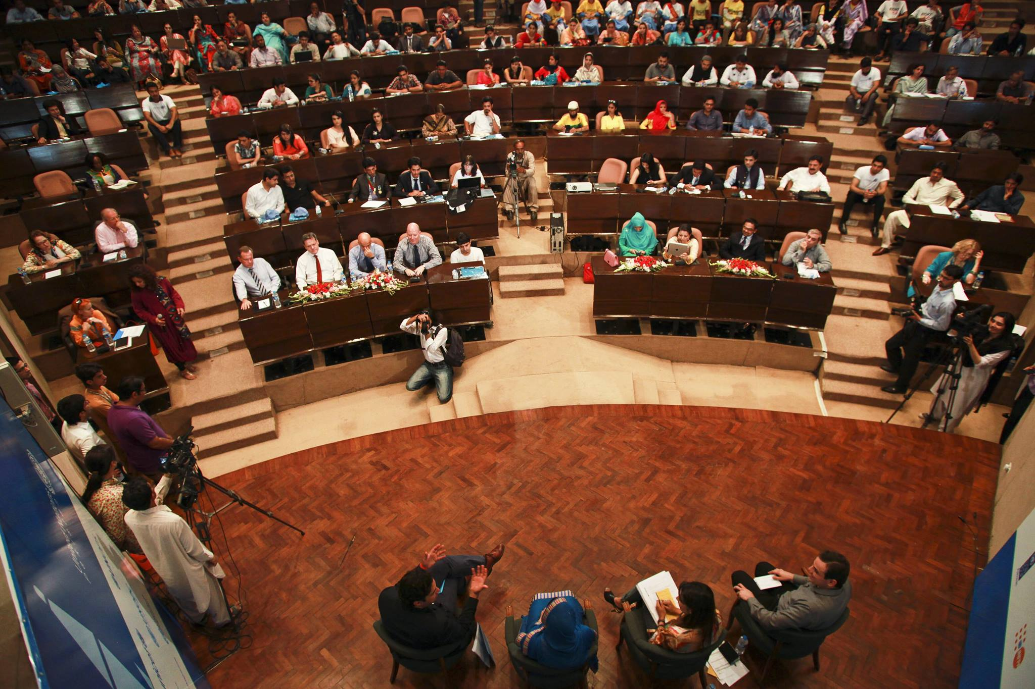 Youth Activist and Human Rights activist Rahmat Aziz Chitrali representing Pakistan in United Nations Youth Forum, second row in white shirt